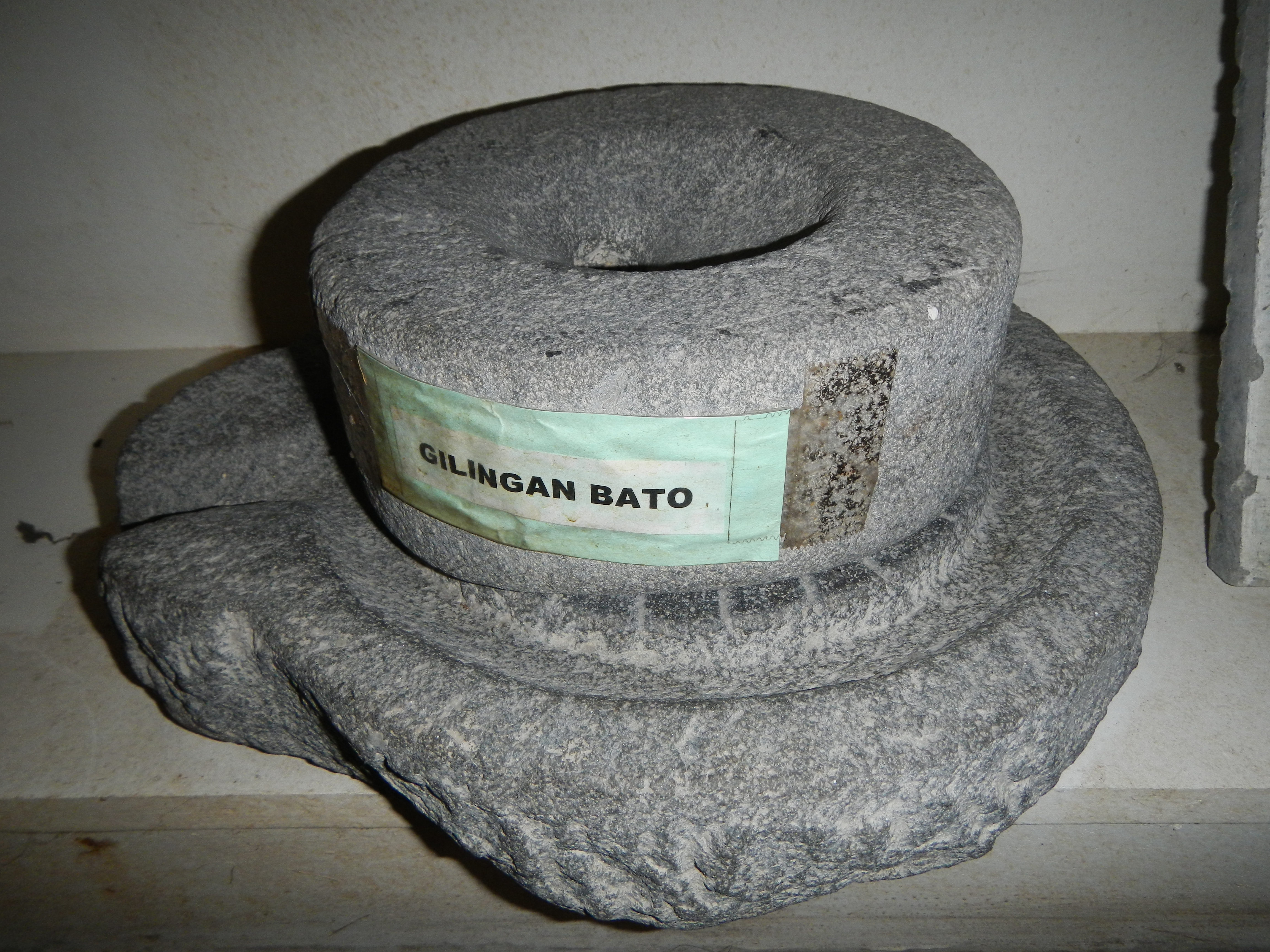 Minalin, Pampanga[1] Museo Ampon Simpanan Kabiasnan Ning Minalin (Museum and Library of Minalin)